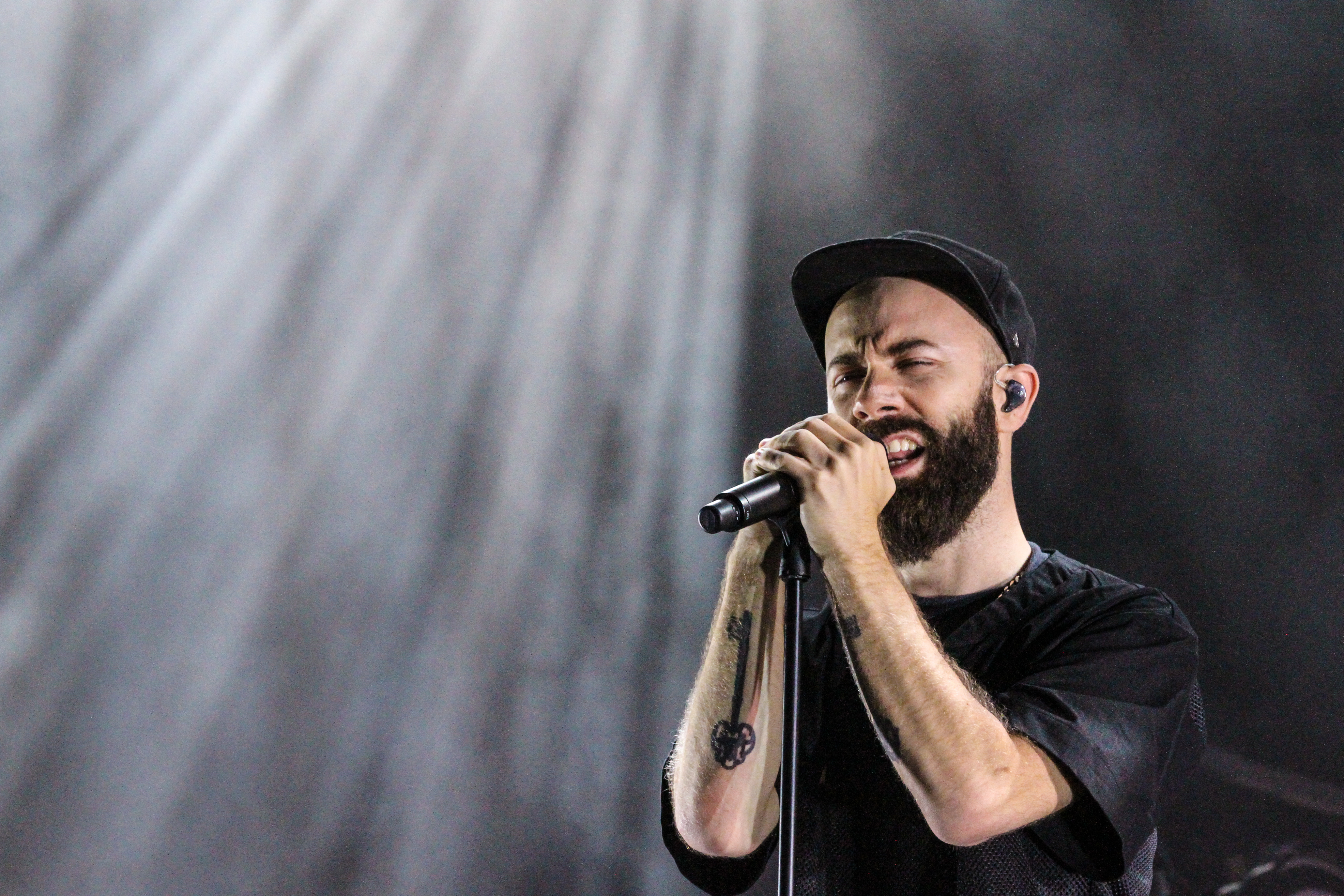 Woodkid performing at Melt! Festival 2013